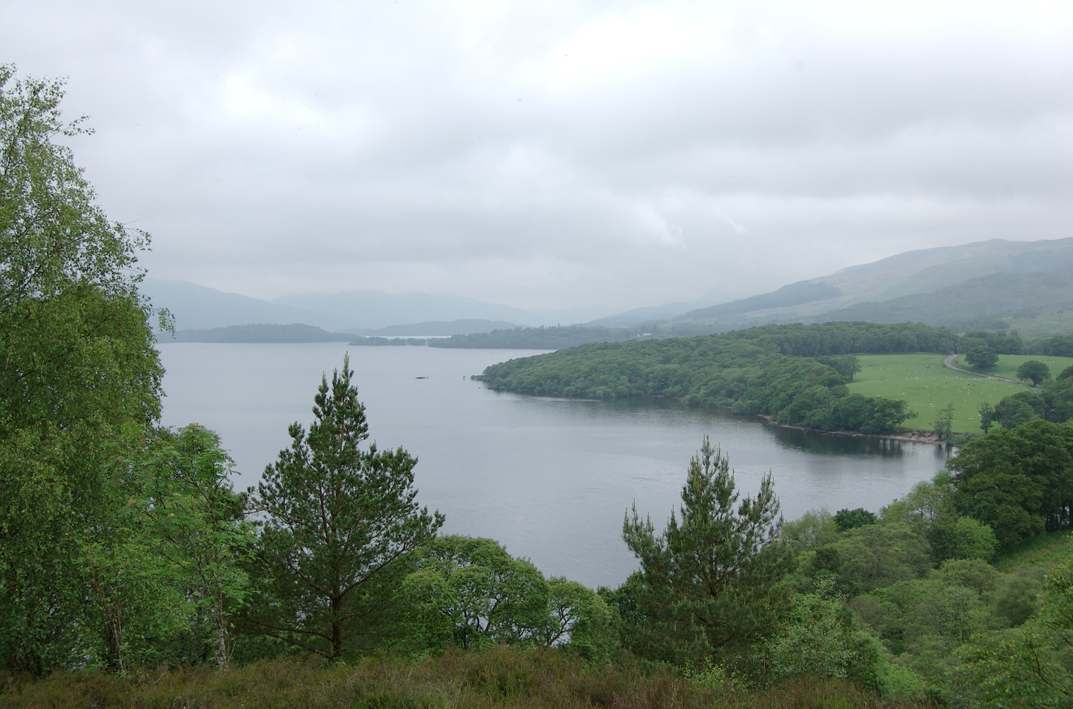 Loch Lomond, View from West Highland Way